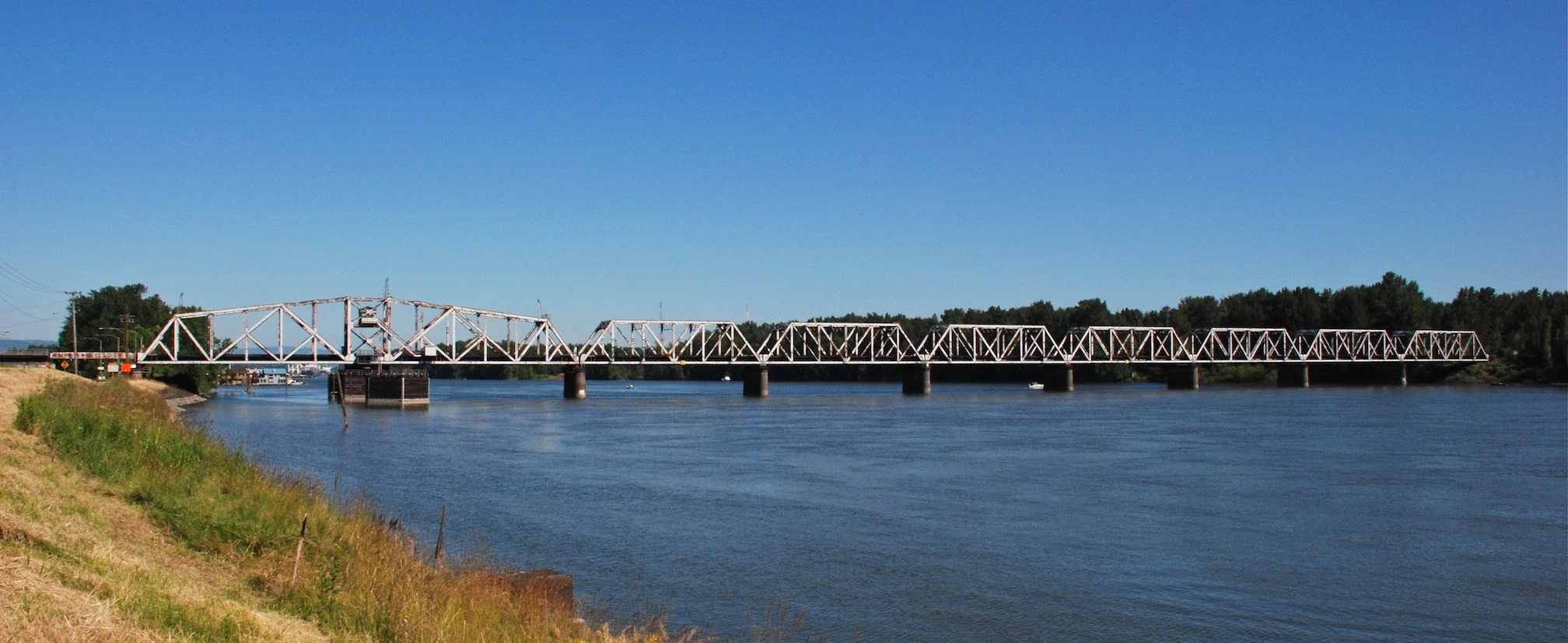 The Oregon Slough Railroad Bridge, also known as BNSF Railway Bridge 8.8, is a 1908 swing-span bridge across the North Portland Harbor (historically known as Oregon Slough), on the south side of Hayden Island, in Portland, Oregon. This photo shows the entire bridge, with the swing-span section at left (at the bridge's south end) and seven fixed-span sections to the north.